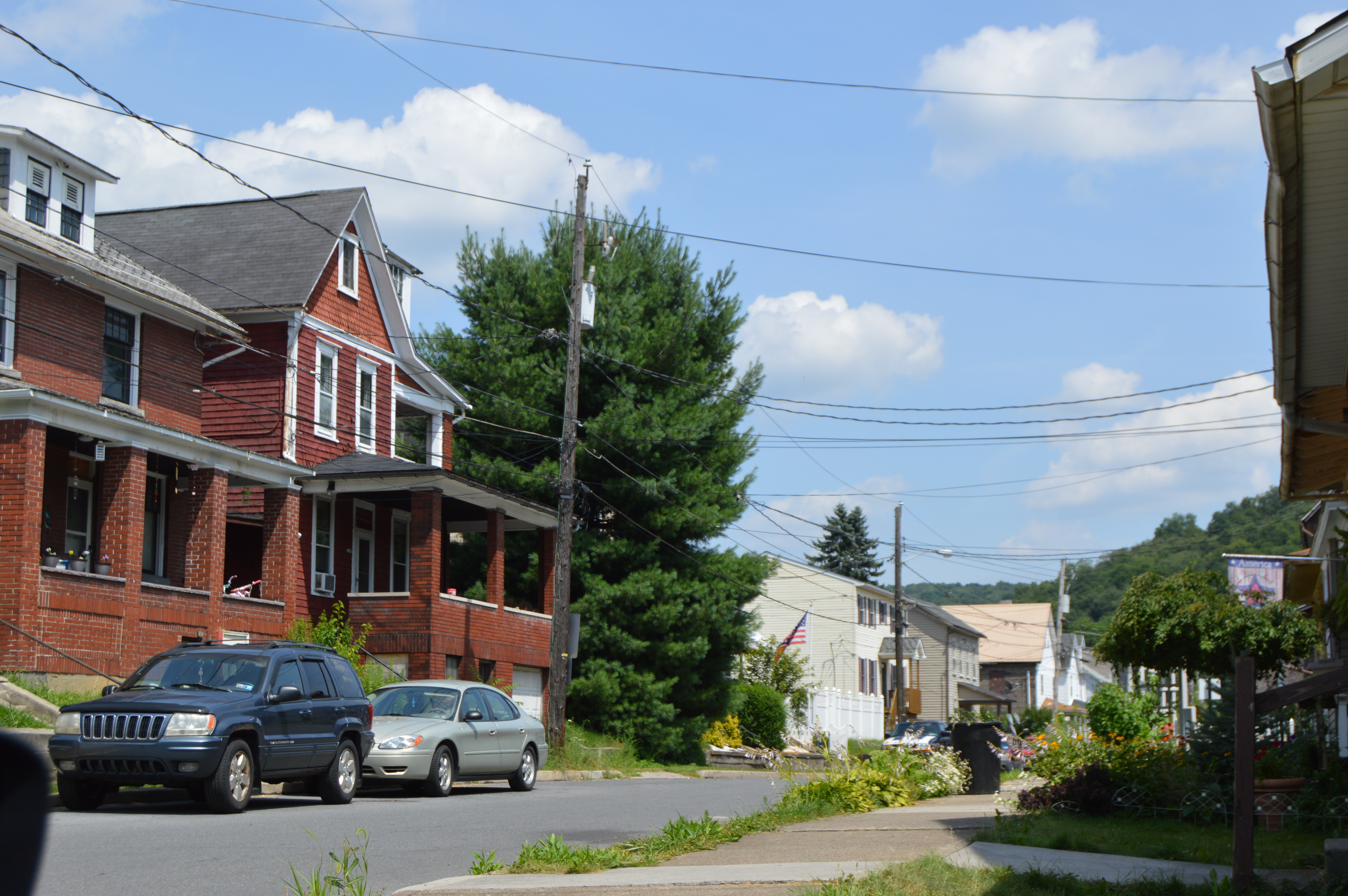 Houses on David Street east of Von Lunen Road in Dale, Pennsylvania, United States.